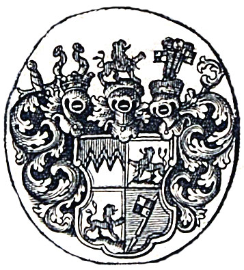 Coat of Arms Erlung 1105 -1121 Bishop of Würzburg